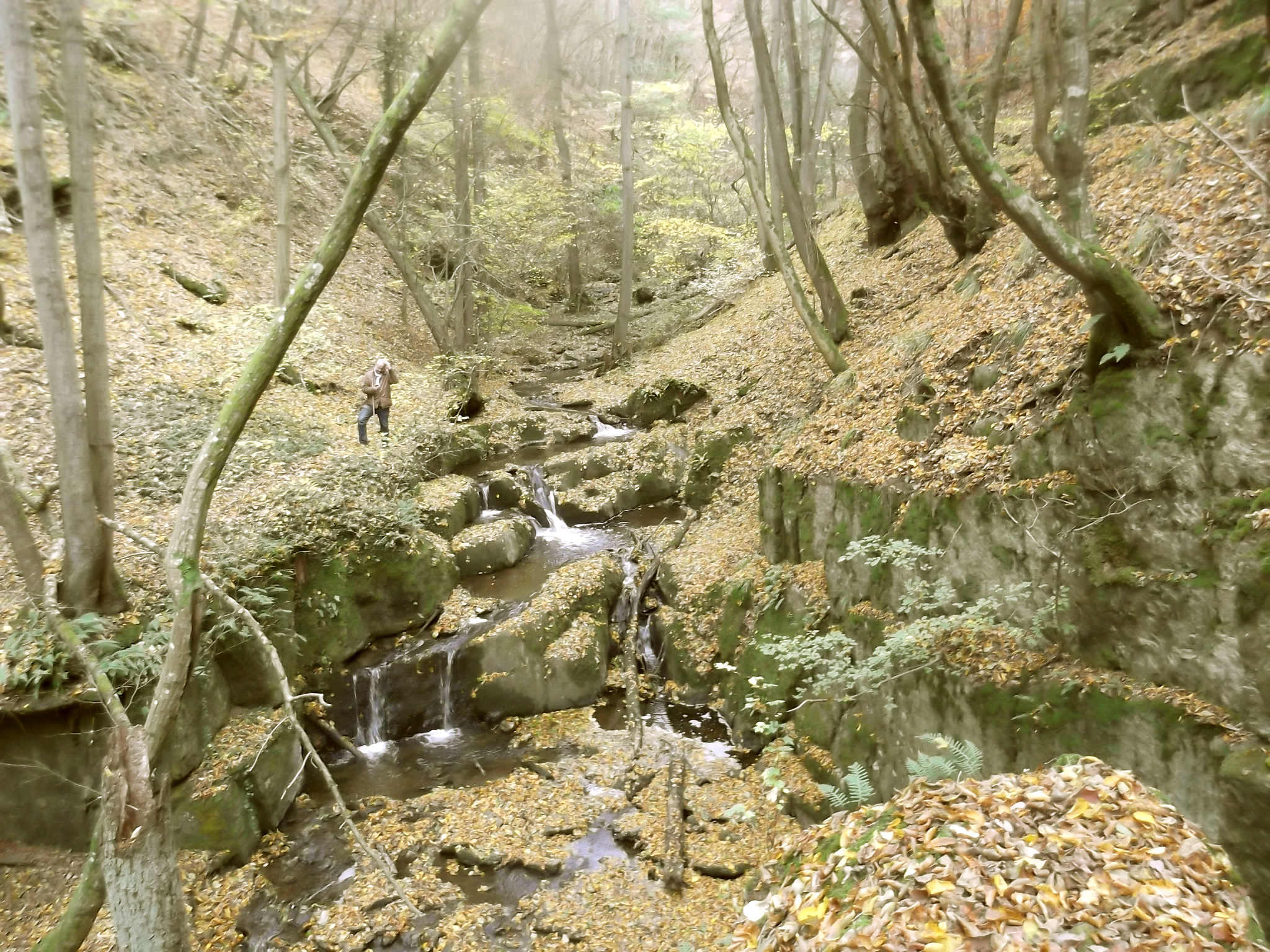 Rocky gorge at Brodenbach (Mosel) in the Untermosel-Region